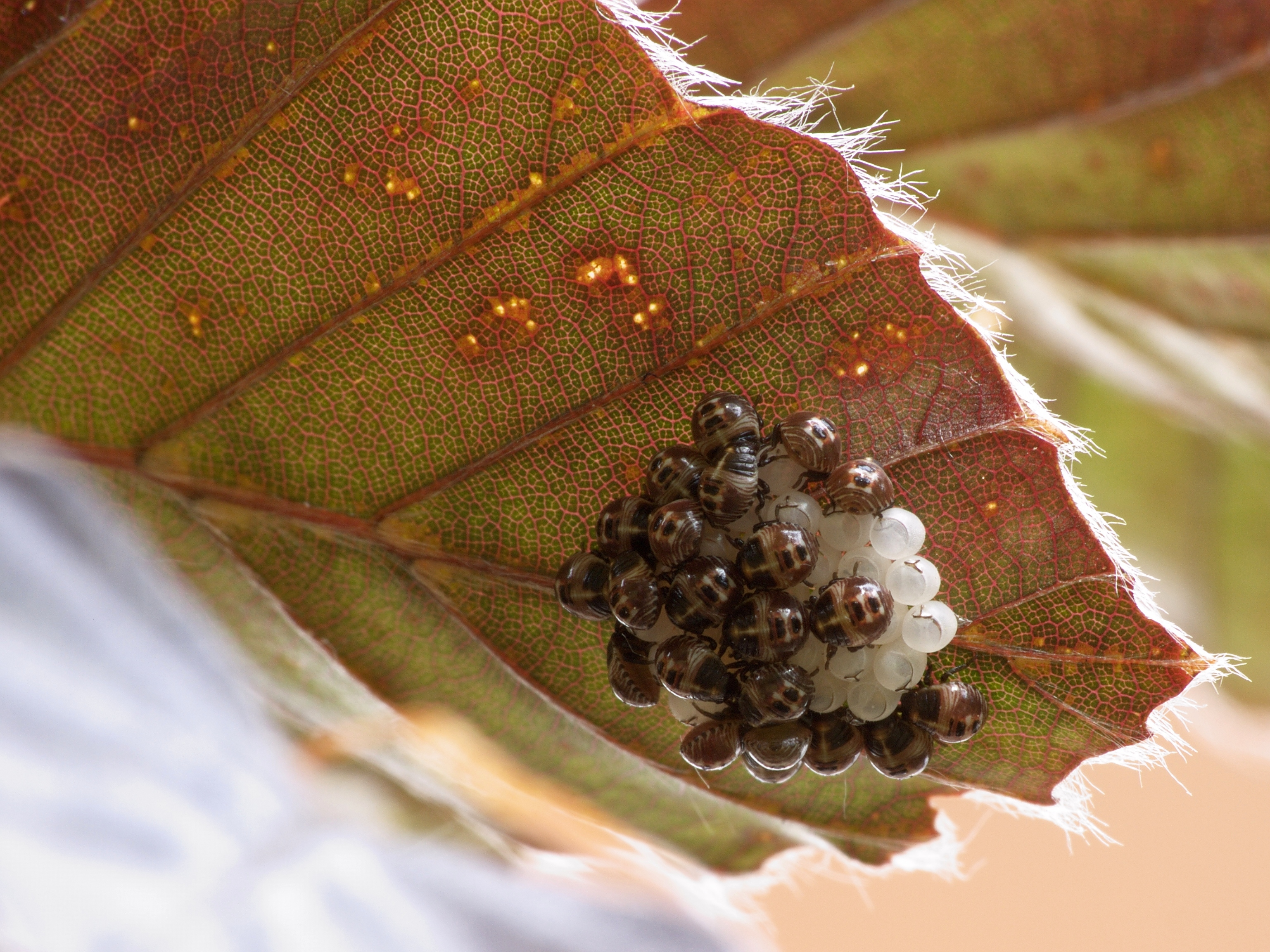 Unidentified pentatomidae hatchlings. Clutch underneath a purple beech leave. Foto was taken with a 3 diopter, achromatic close-up lens.